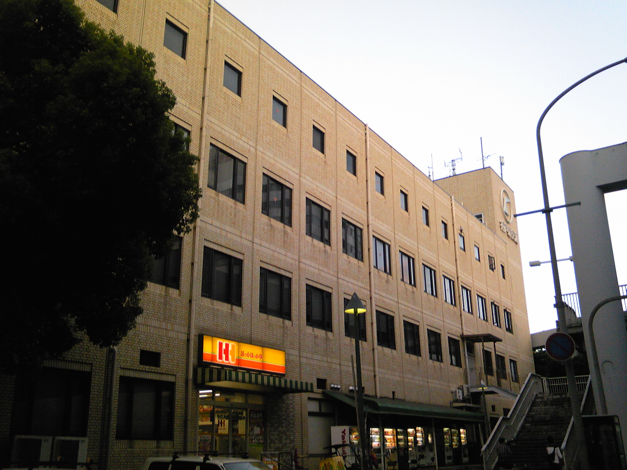 Kobe New Transit Office